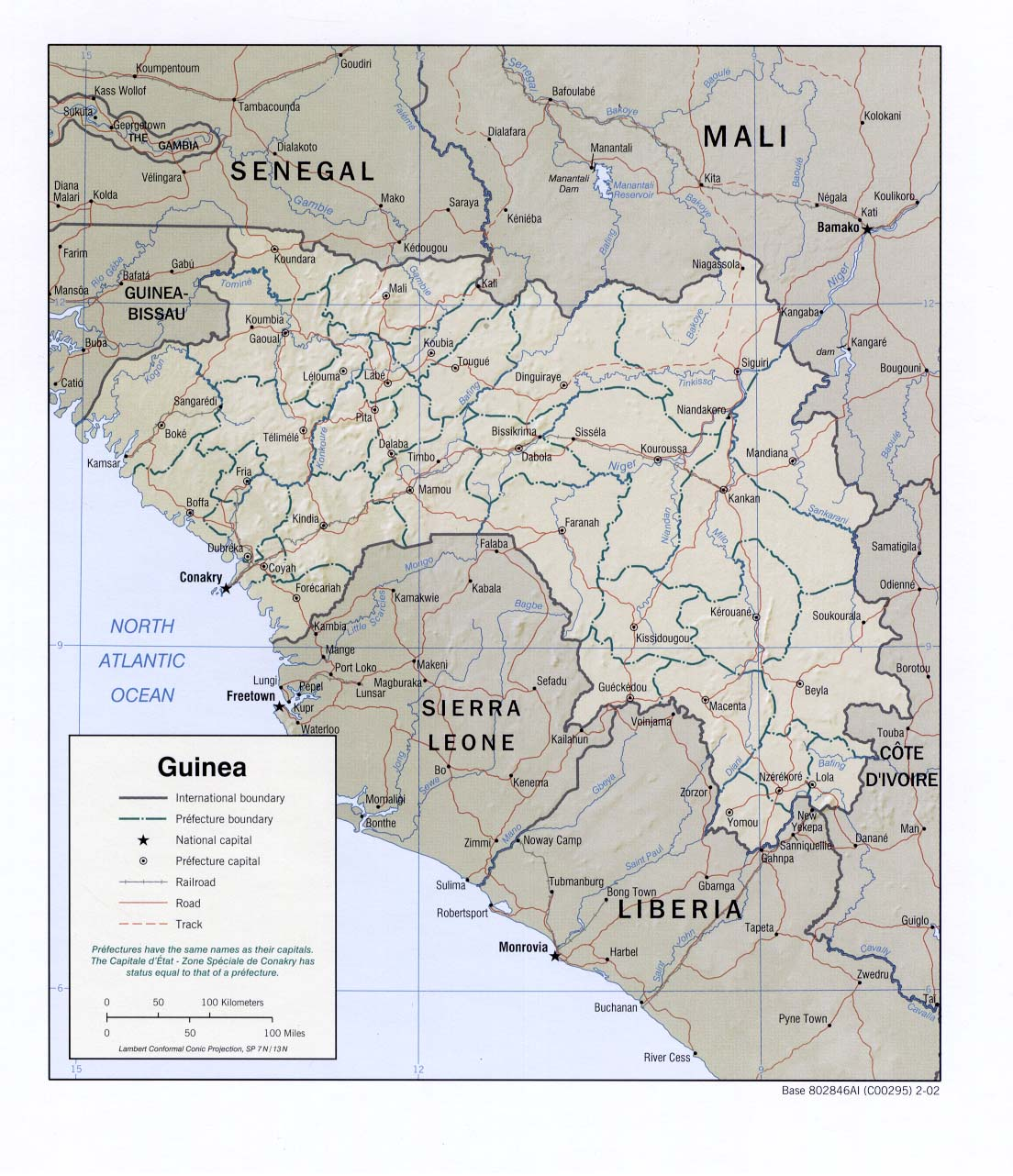 Shaded relief map of Guinea.